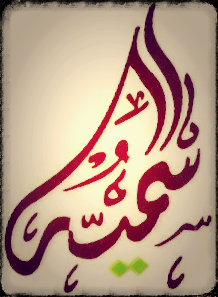 The name "Sumayyah" in arabic calligraphy.